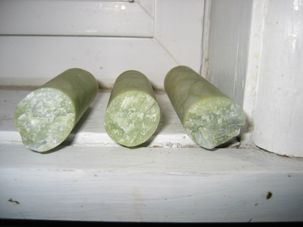 Macro image of an impure jade cylindrical dough rolling pin broken into three roughly equal pieces, showing the mineral fracture and cleavage properties.